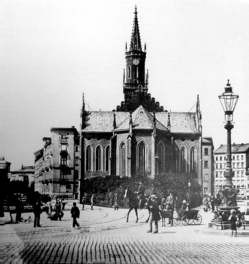 East view of the Old Trinity Church in Leipzig